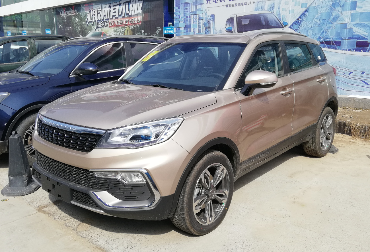 Leopaard CS9 photographed in Zhengzhou, Henan province, China.